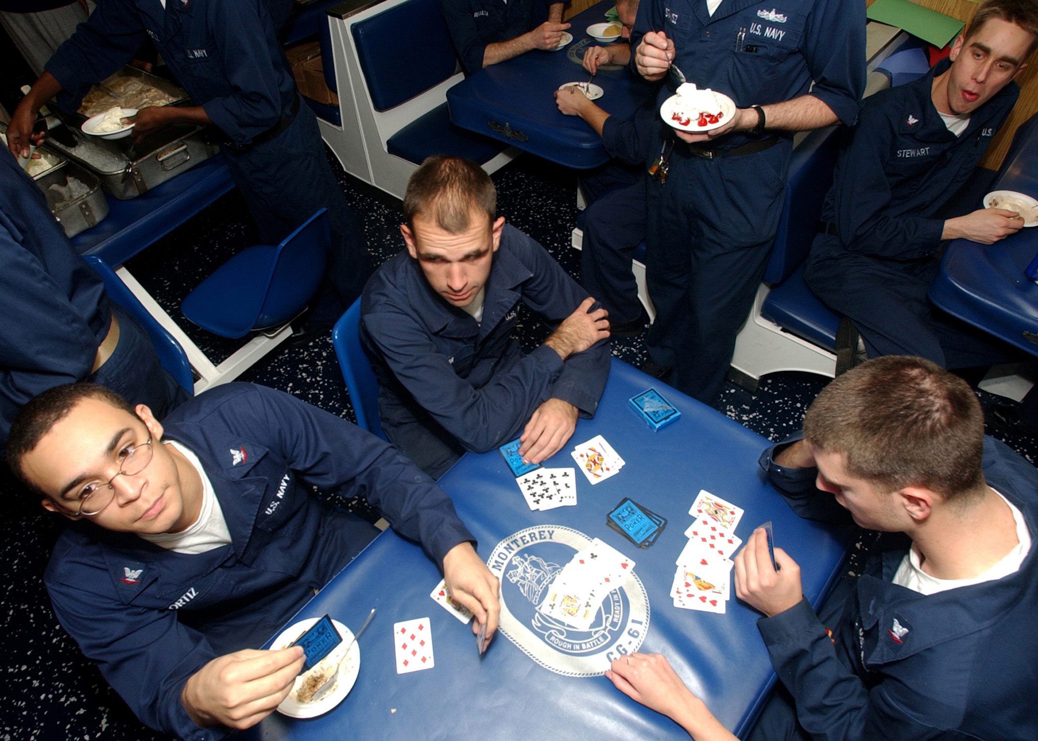 Persian Gulf (Dec. 24, 2004) - Sailors enjoy playing a game of cards during a Christmas Eve ice cream social on the mess decks aboard the guided missile cruiser USS Monterey (CG 61). Monterey is assigned to Carrier Strike Group Ten (CSG-10) and is currently on a regularly scheduled deployment in support of the Global War on Terrorism. U.S. Navy photo by Photographer's Mate 3rd Class Craig Spiering (RELEASED)